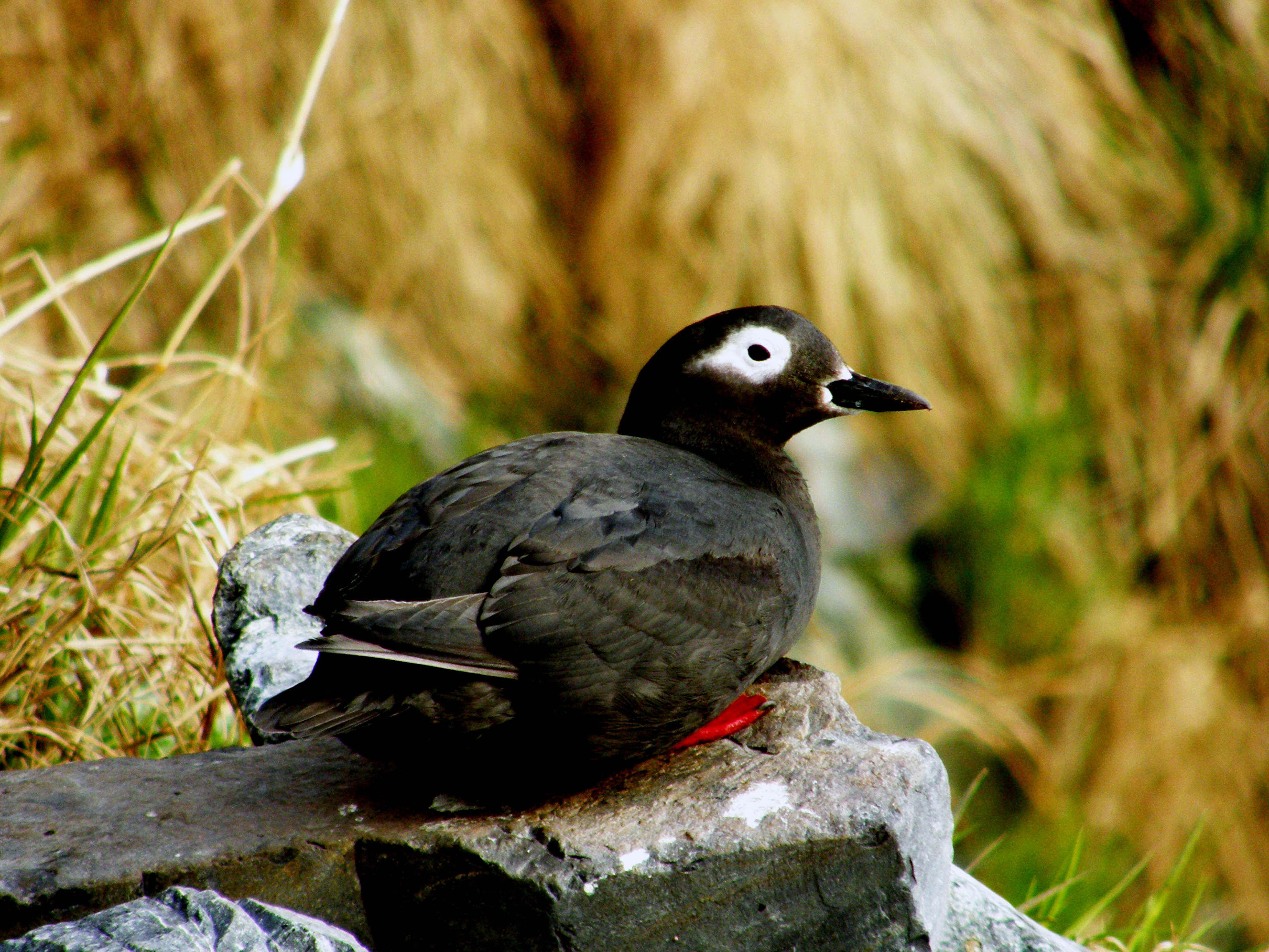 Photograph of spectacled guillemot (Cepphus carbo) in breeding plumage taken on Yamsky Island in the Sea of Okhotsk, Russia, 2007.